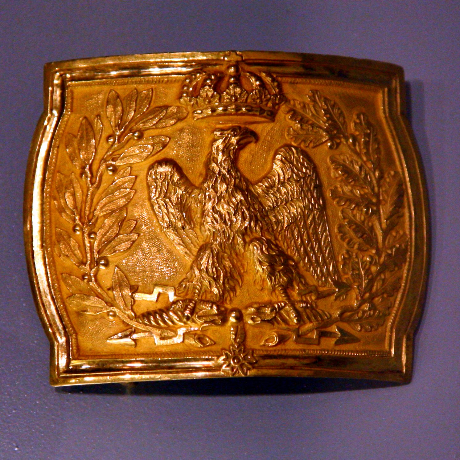 Belt buckle of an infantry officer of the Imperial Guard of the First Empire